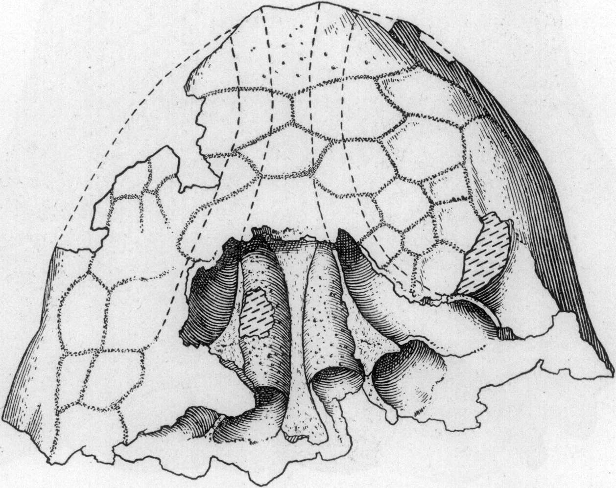 Diagram showing the nasal chambers of Ankylosaurus (specimen AMNH 5895).